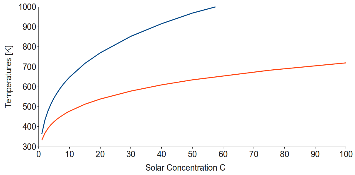 Maximum (upper curve (blue)) and optimum (bottom curve (red)) temperature relative to the concentration ratio of the solar receptor.